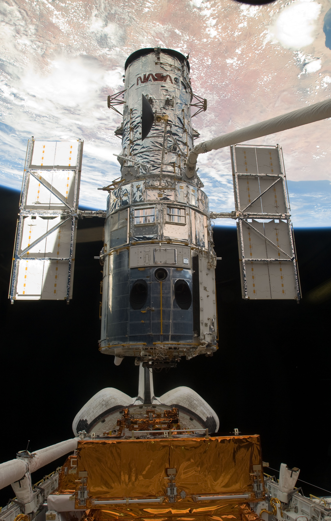 The Hubble Space Telescope lifted out of the payload bay of Atlantis, moments before it is released into space following the successful repair mission of STS-125.